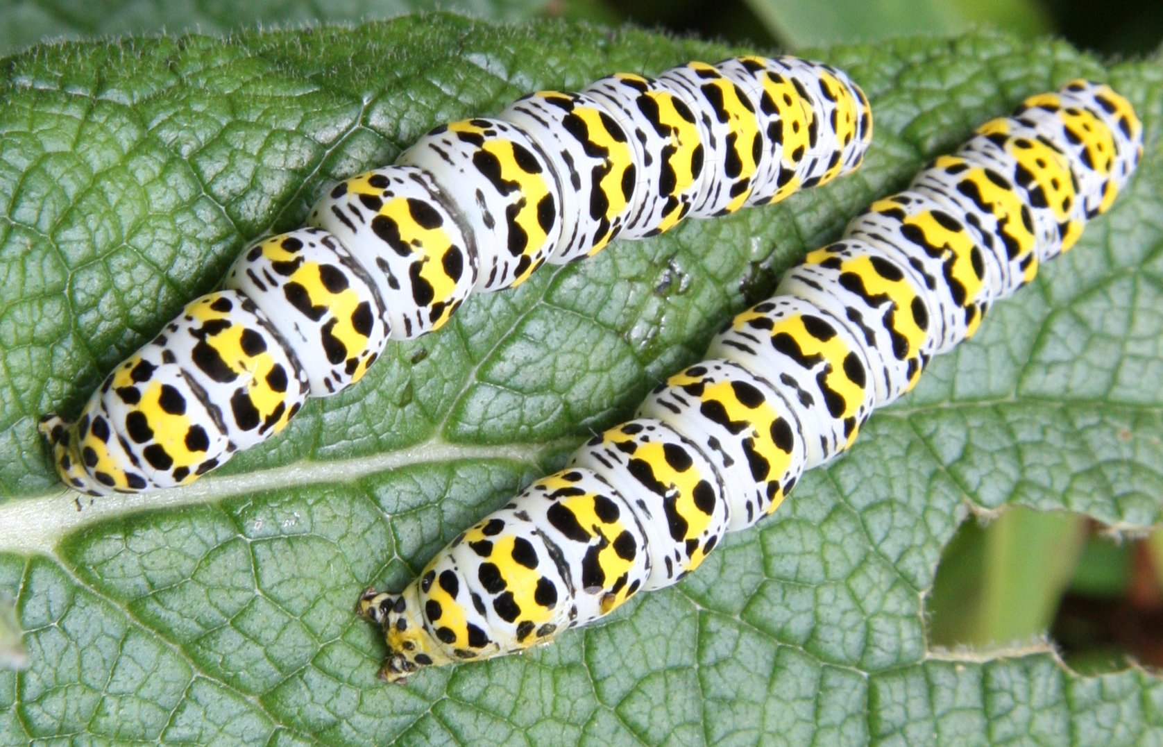 Caterpillar of the Mullein Moth